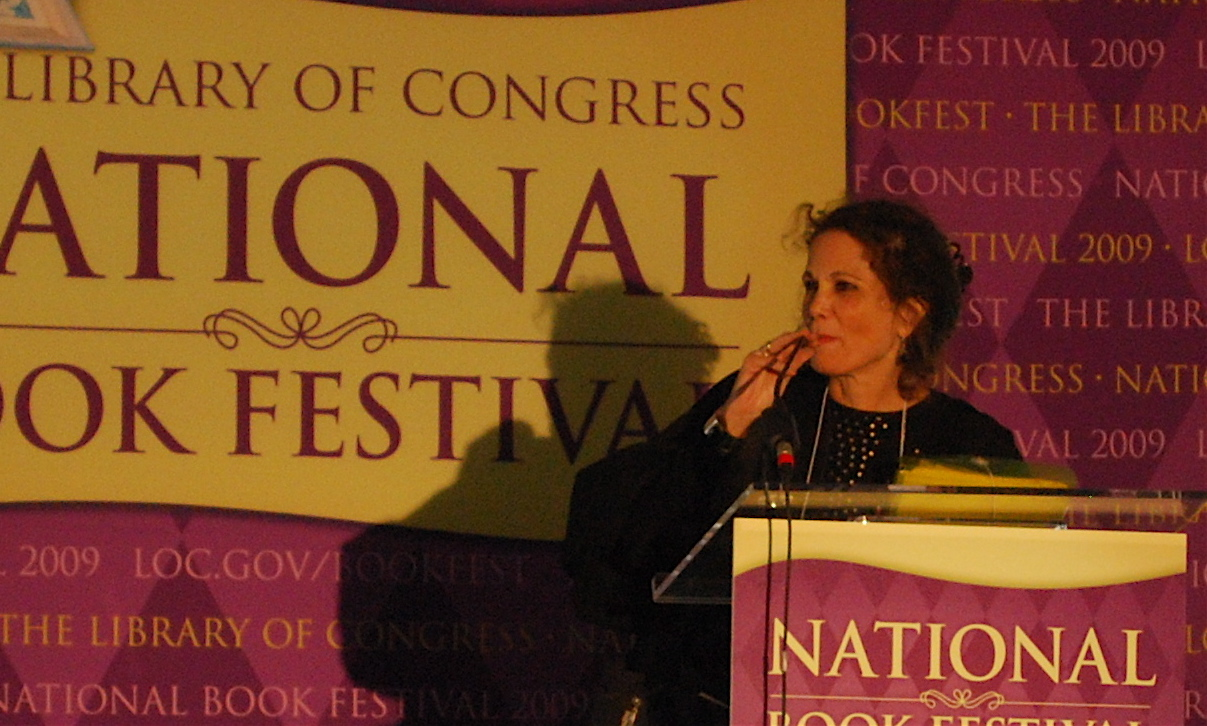 Julia Alvarez!